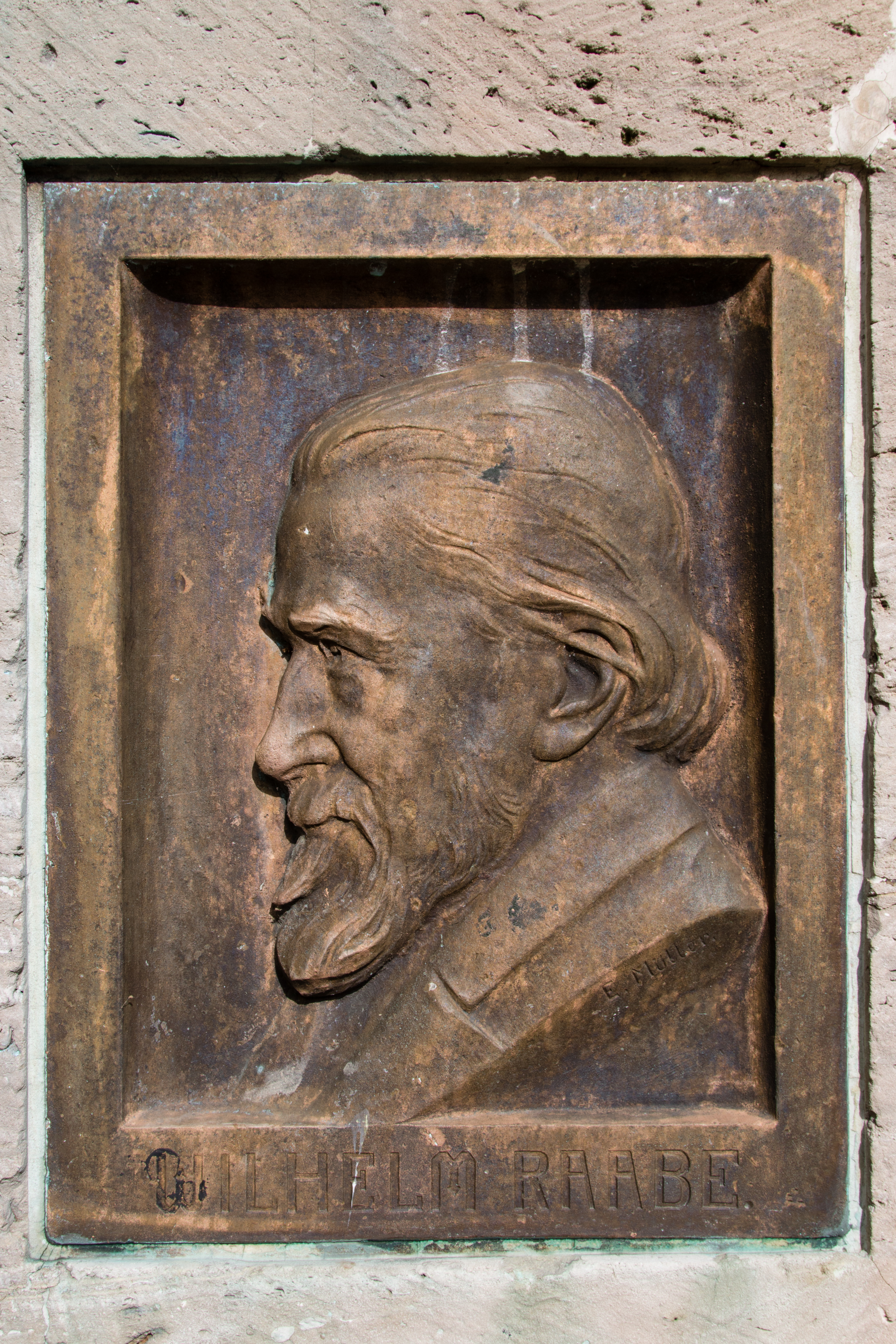 Wilhelm Raabe plaque in Brunswick, Germany.